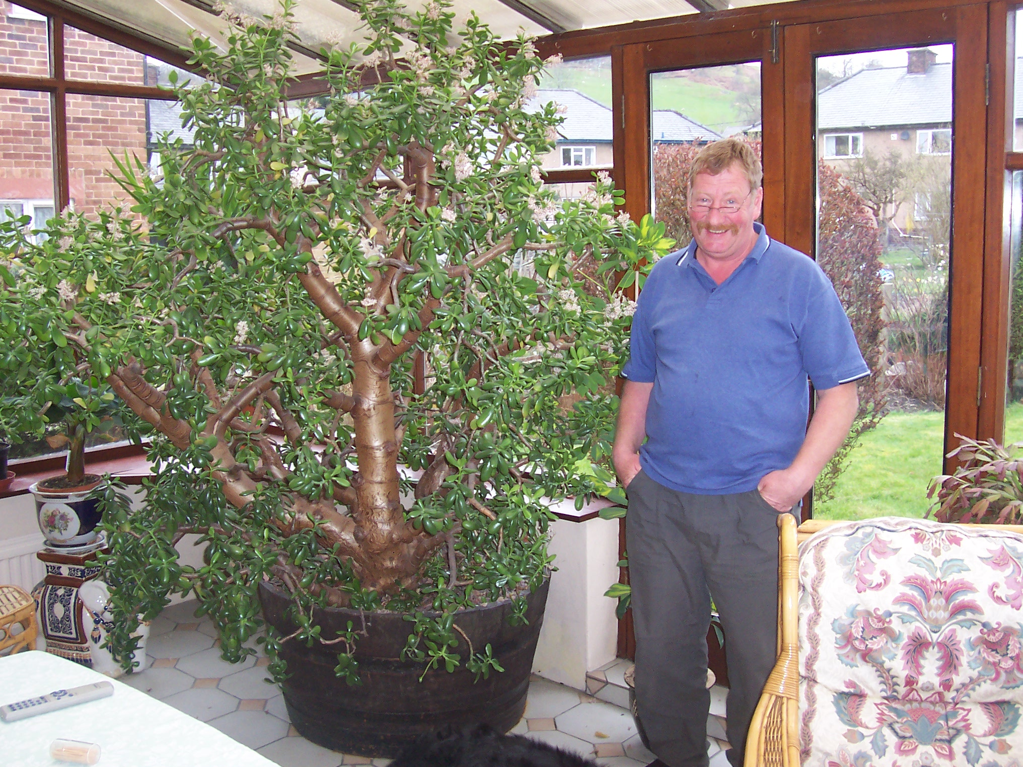 Crassula ovata grown by Emyr Jones of Bala, North Wales. It is very big.